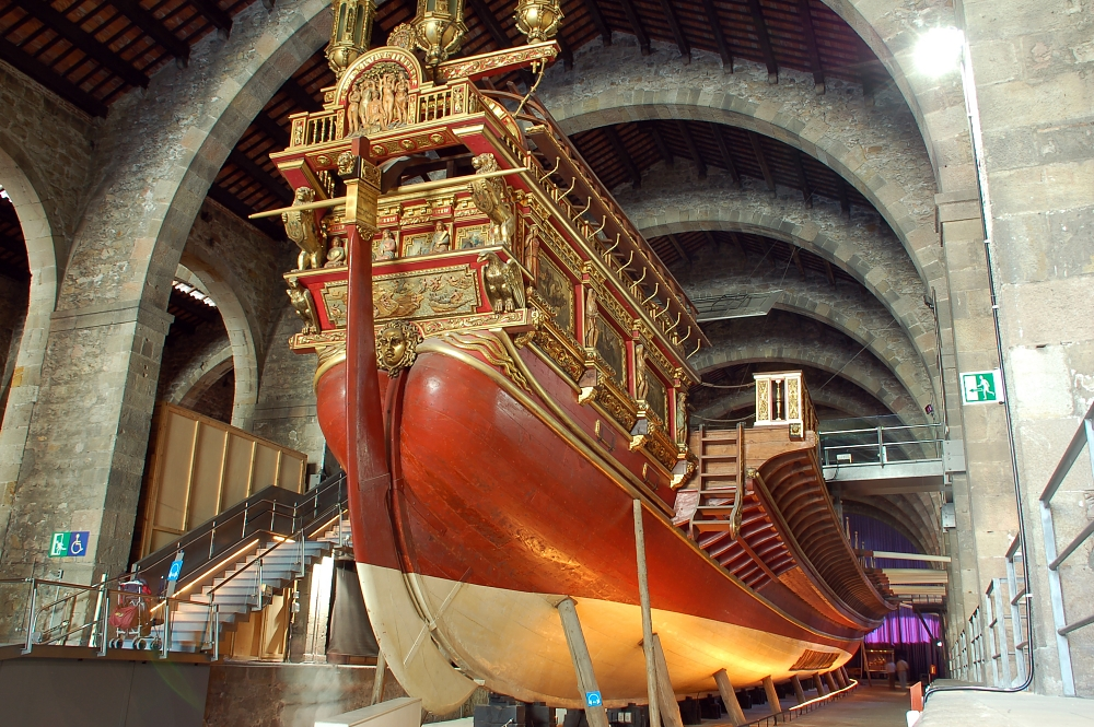 Museu Maritim, Barcelona, Spain